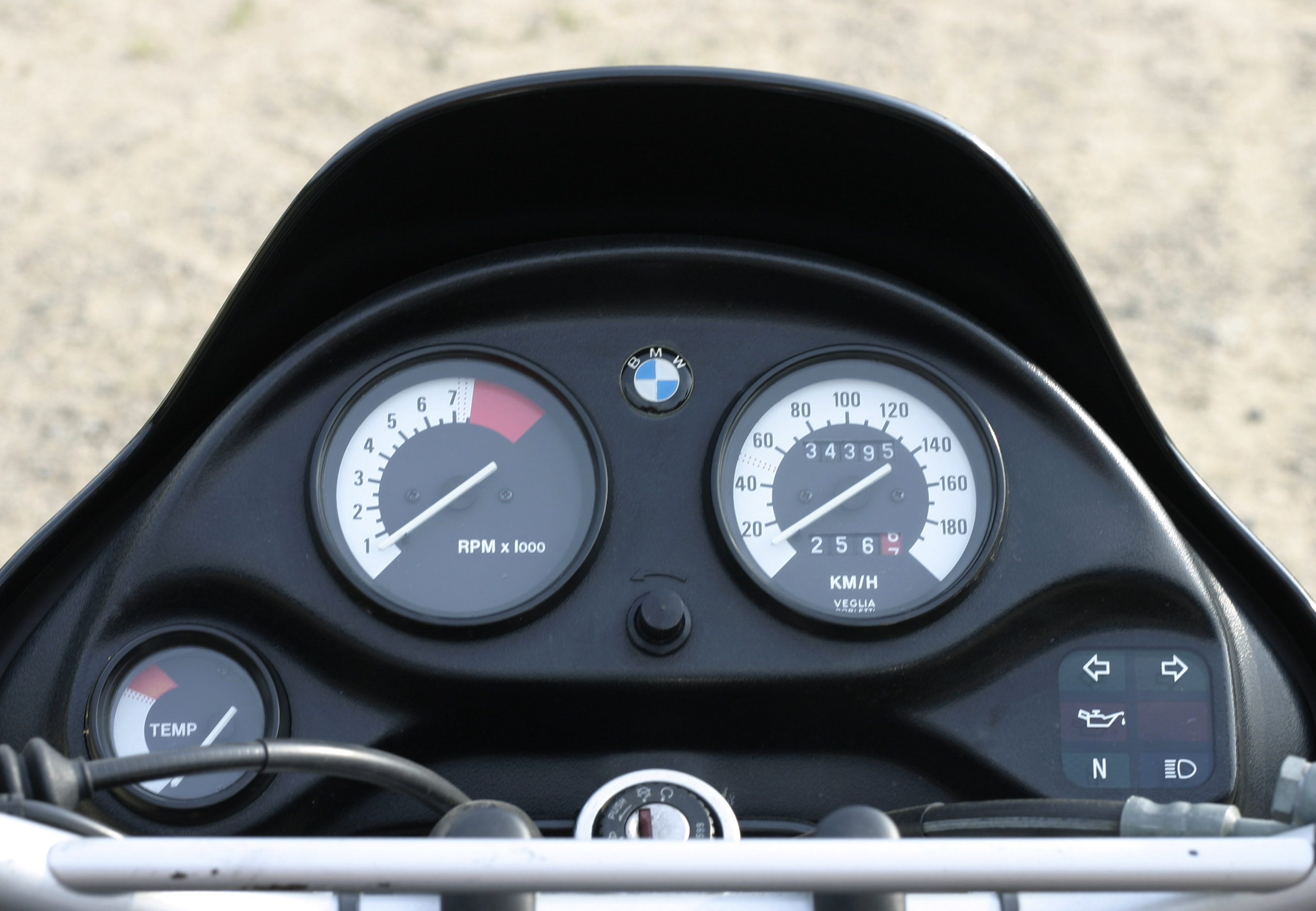 Instrument panel of Motorcycle BMW F 650 - year of manufacture 1997, Cockpit vom Motorrad BMW F 650 - Baujahr 1997